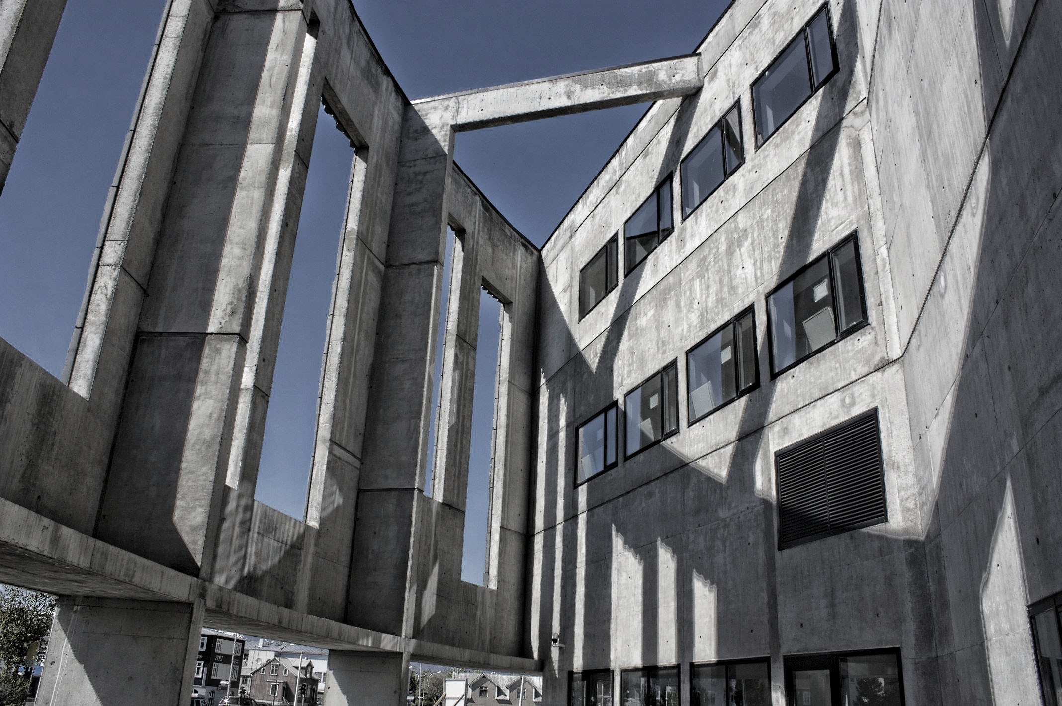 The Akureyri culture house. Hof, menningarhúsið á Akureyri